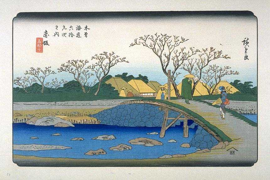 Akasaka on the Kisokaido, ukiyo-e prints by Hiroshige